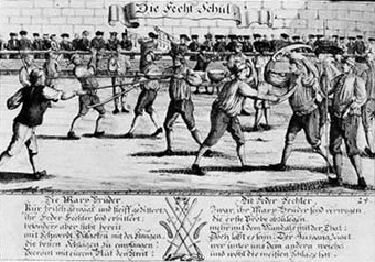 17th century (?) depiction of a German fencing school. The caption mentions the Marx brothers and the Federfechter.